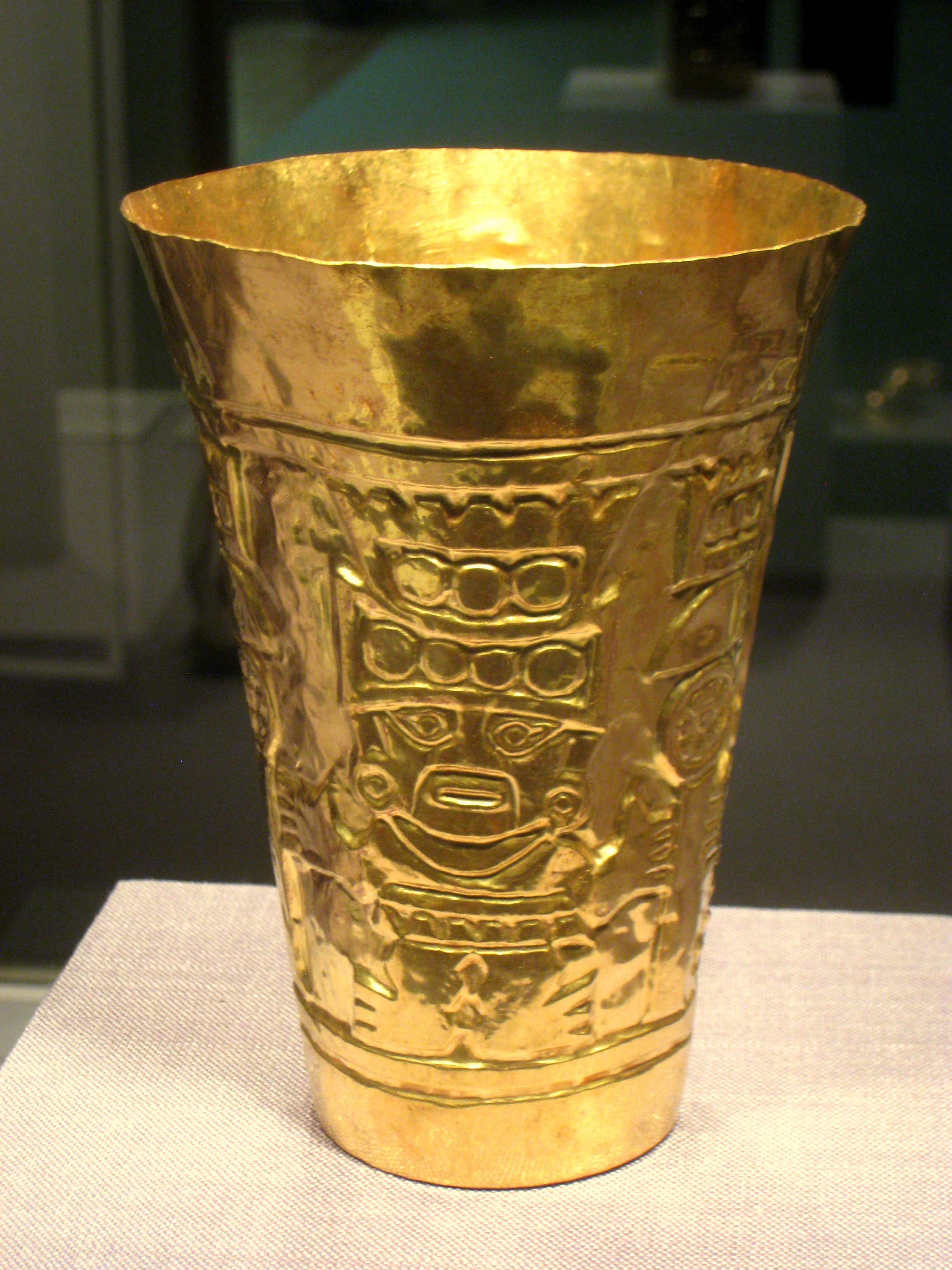 Cup, Peru north coast, Sicán culture, 850-1050 AD, gold, Pre-Columbian collection in the Worcester Art Museum, Worcester, Massachusetts, USA. The museum permits photography and does not restrict usage of the photographs.